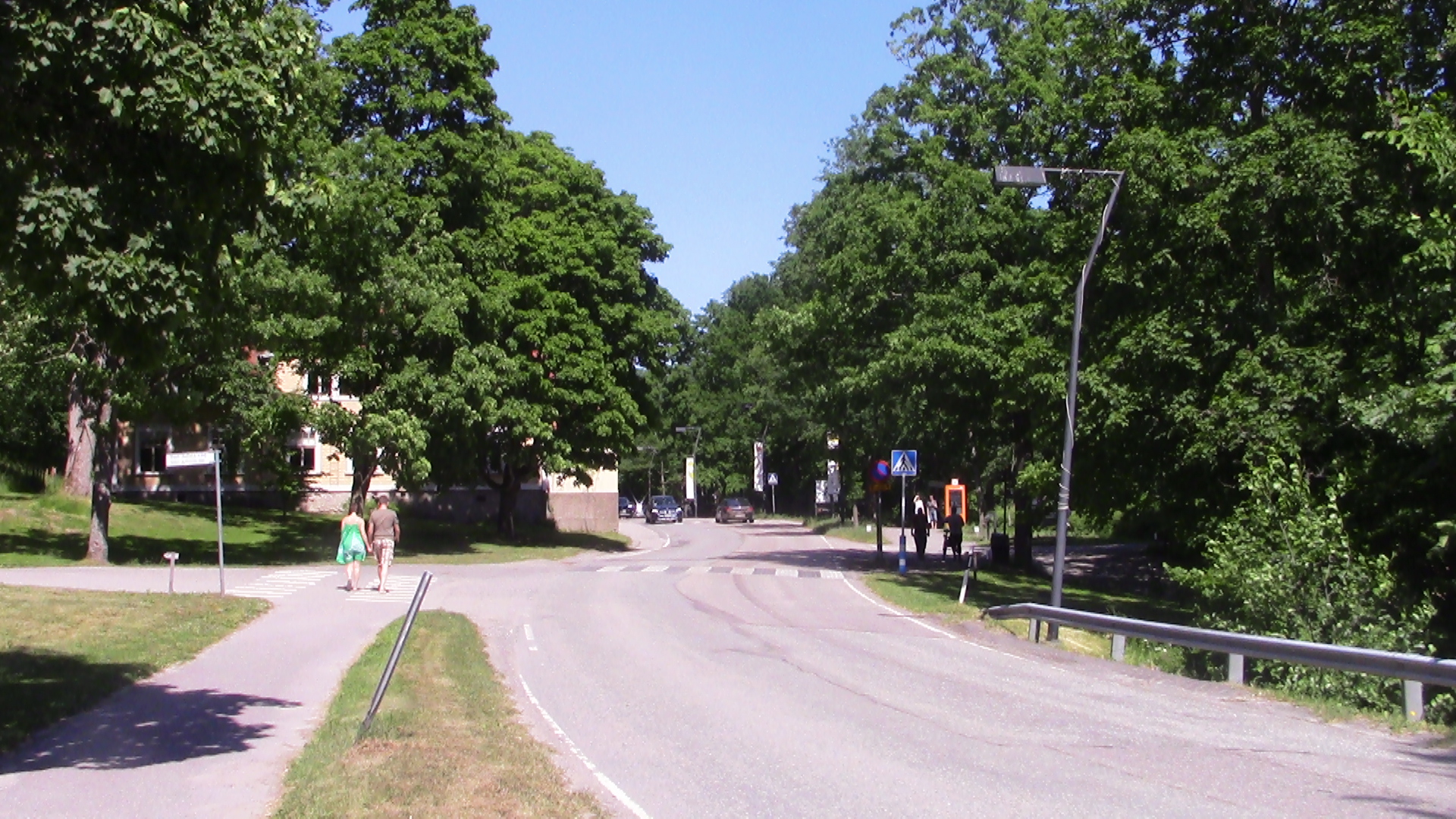 Regional road 104 at Fiskars in Raseborg, Finland. The road runs from Pohja, Raseborg to Niitunpää, Lohja.